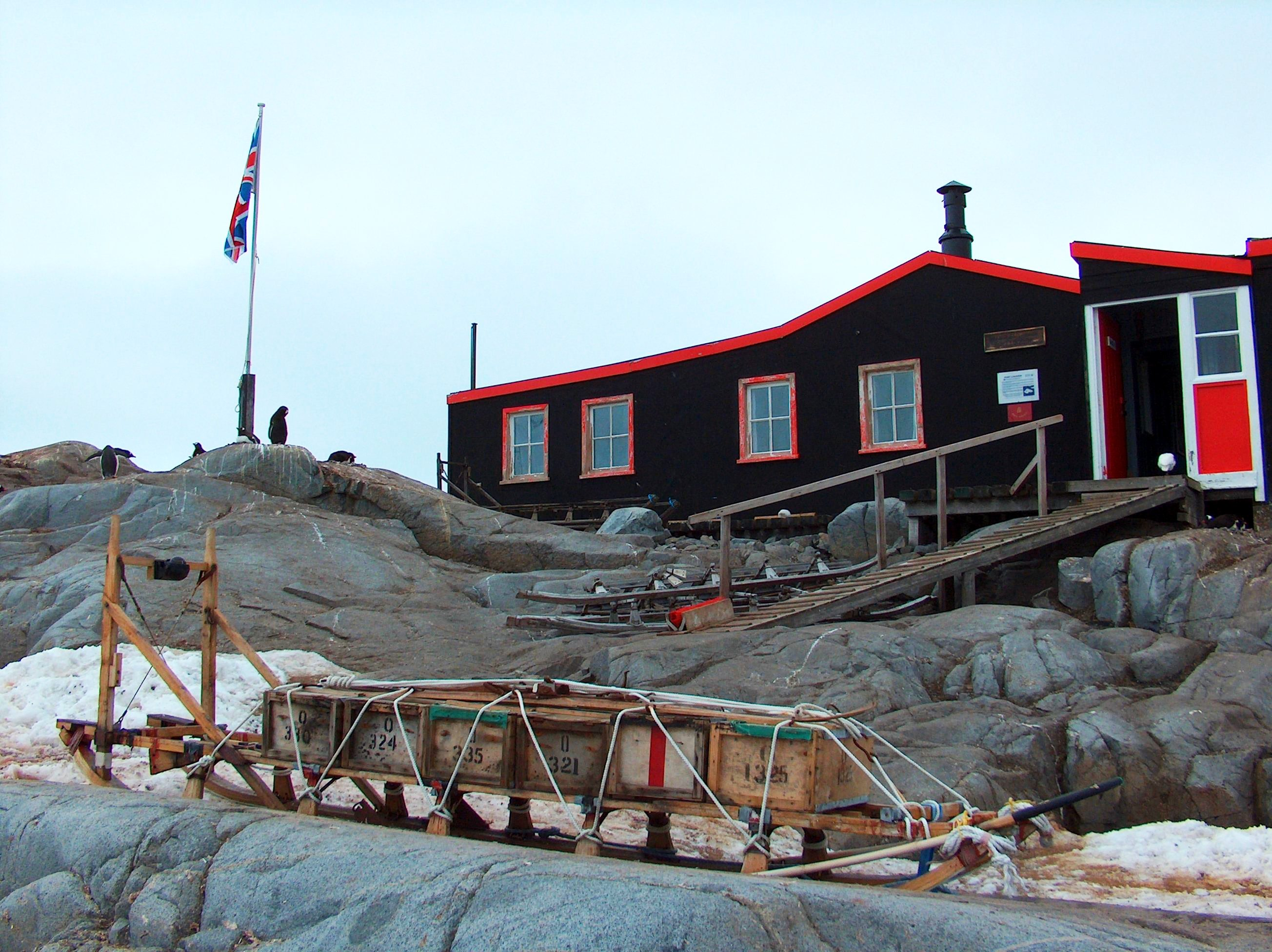 Port Lockroy Museum on Goudier Island in the Palmer Archipelago, Antarctica.